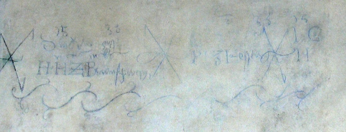 Alchemist inscriptions at the Budyně Castle, Czech Republic. Vyfotografoval Miraceti 30. prosince 2006.